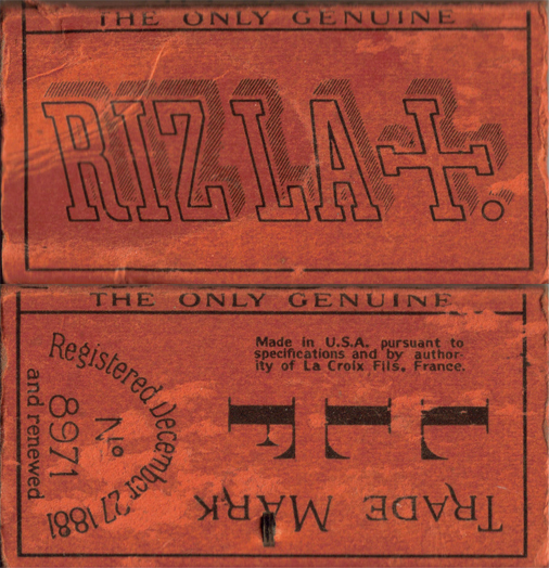 Rizla + rolling papers scanned Image.